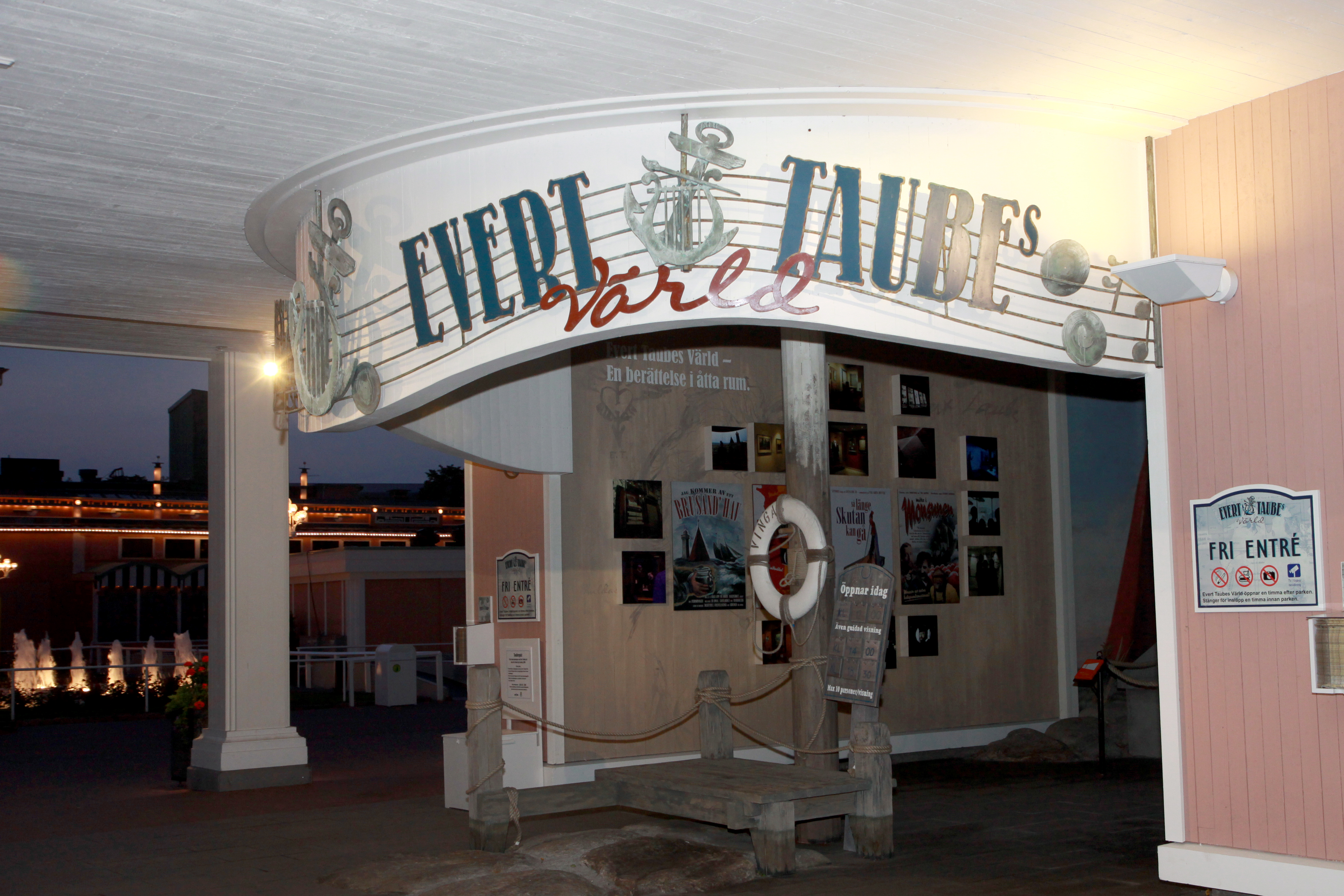 Evert Taubes World at Liseberg